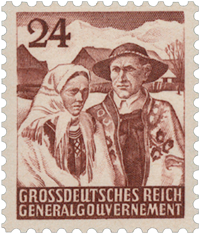 Post stamp printed by Nazi German authorities during occupation of Poland, showing Gorale, part of Goralenvolk action